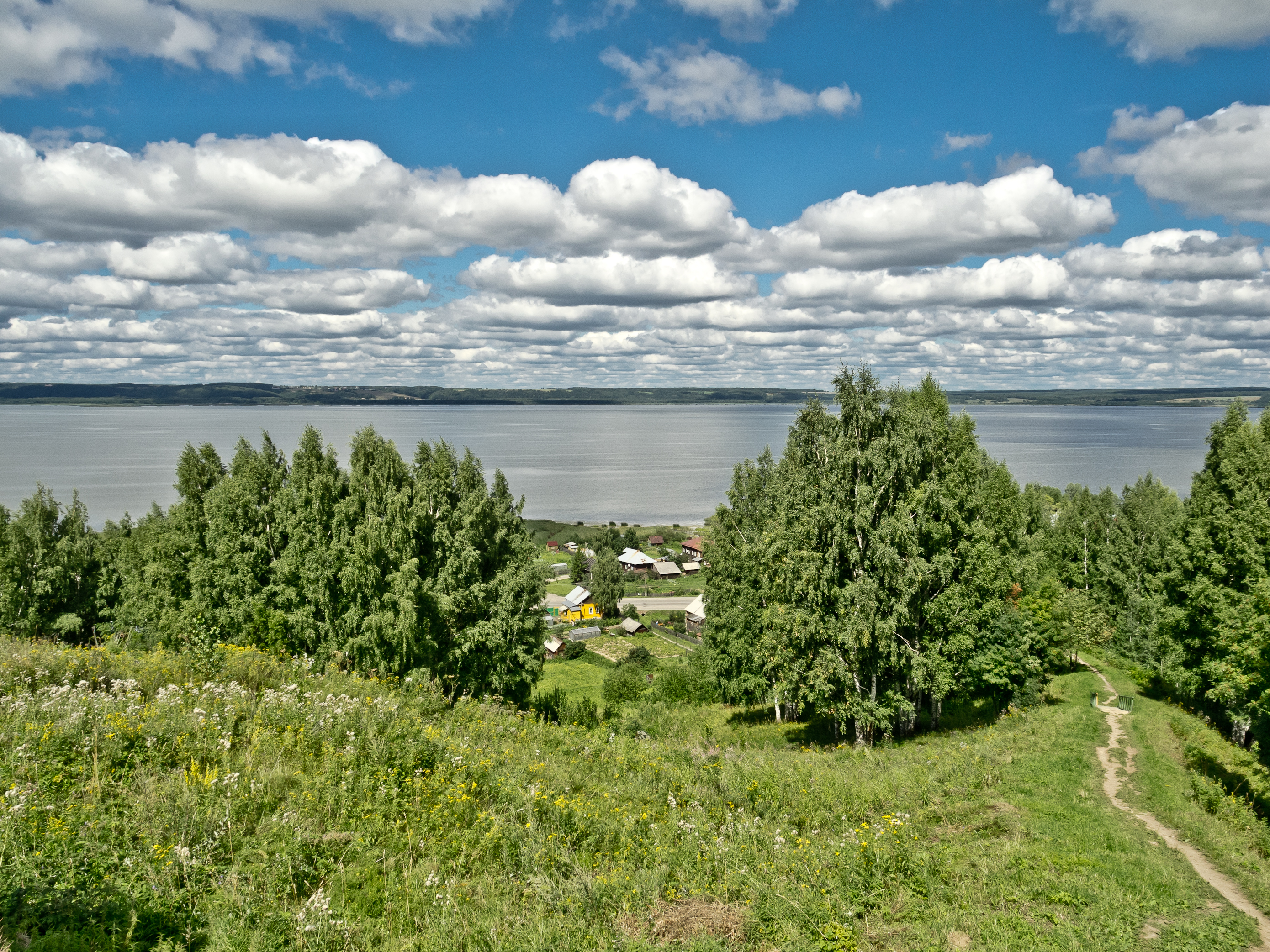 View to Galich Lake from Balchug hill in Galich, Russia